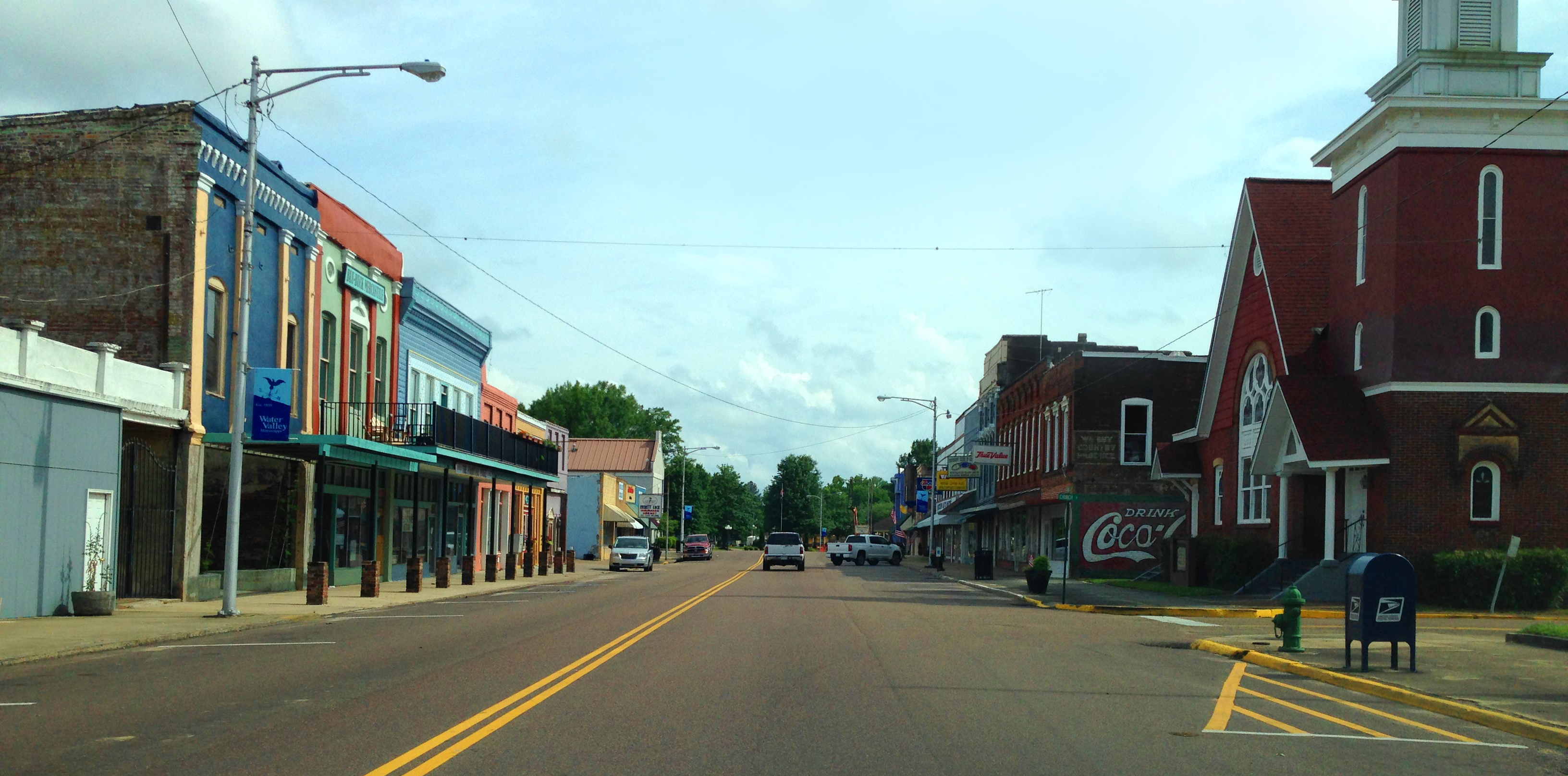 Looking south on Main Street in Water Valley, Mississippi.